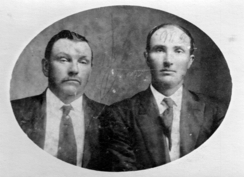 Sheriff Bill Reid of Forsyth County, Georgia and his deputy Mitchell Gay Lummus, c.1912